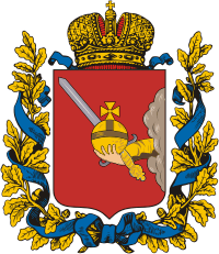 Vologda gubernia (Russian empire), coat of arms